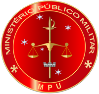 Simbolo of MPM